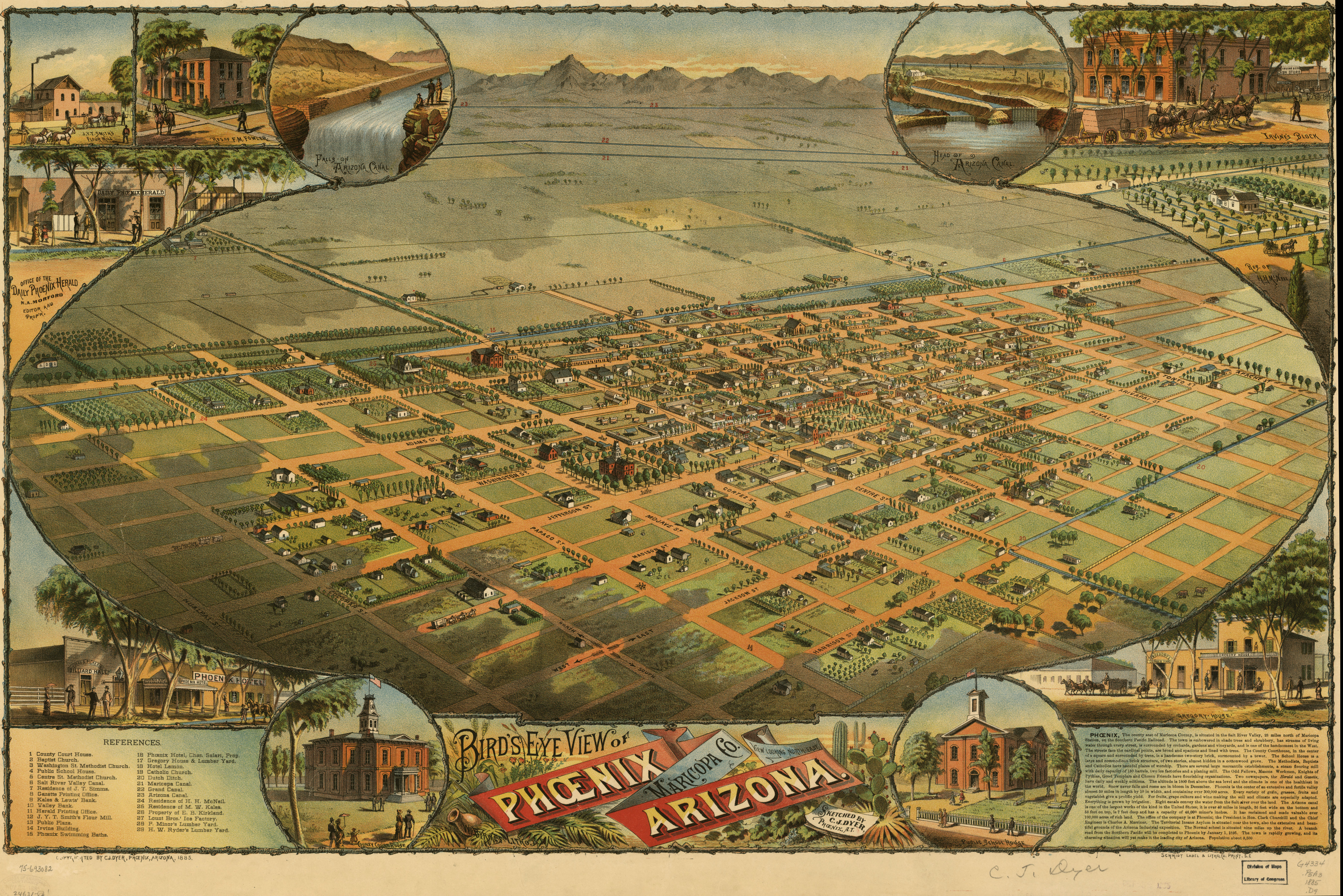 An 1885 lithograph of a bird's-eye view of the city of Phoenix, Arizona, created by C. J. Dyer and published by Schmidt Label & Lithograph Company.